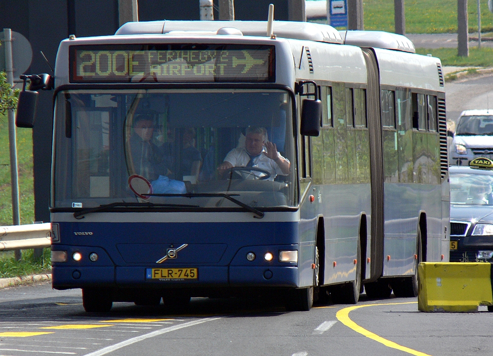 The BKV's airport bus, 200E on the Budapest Ferenc Liszt International Airport